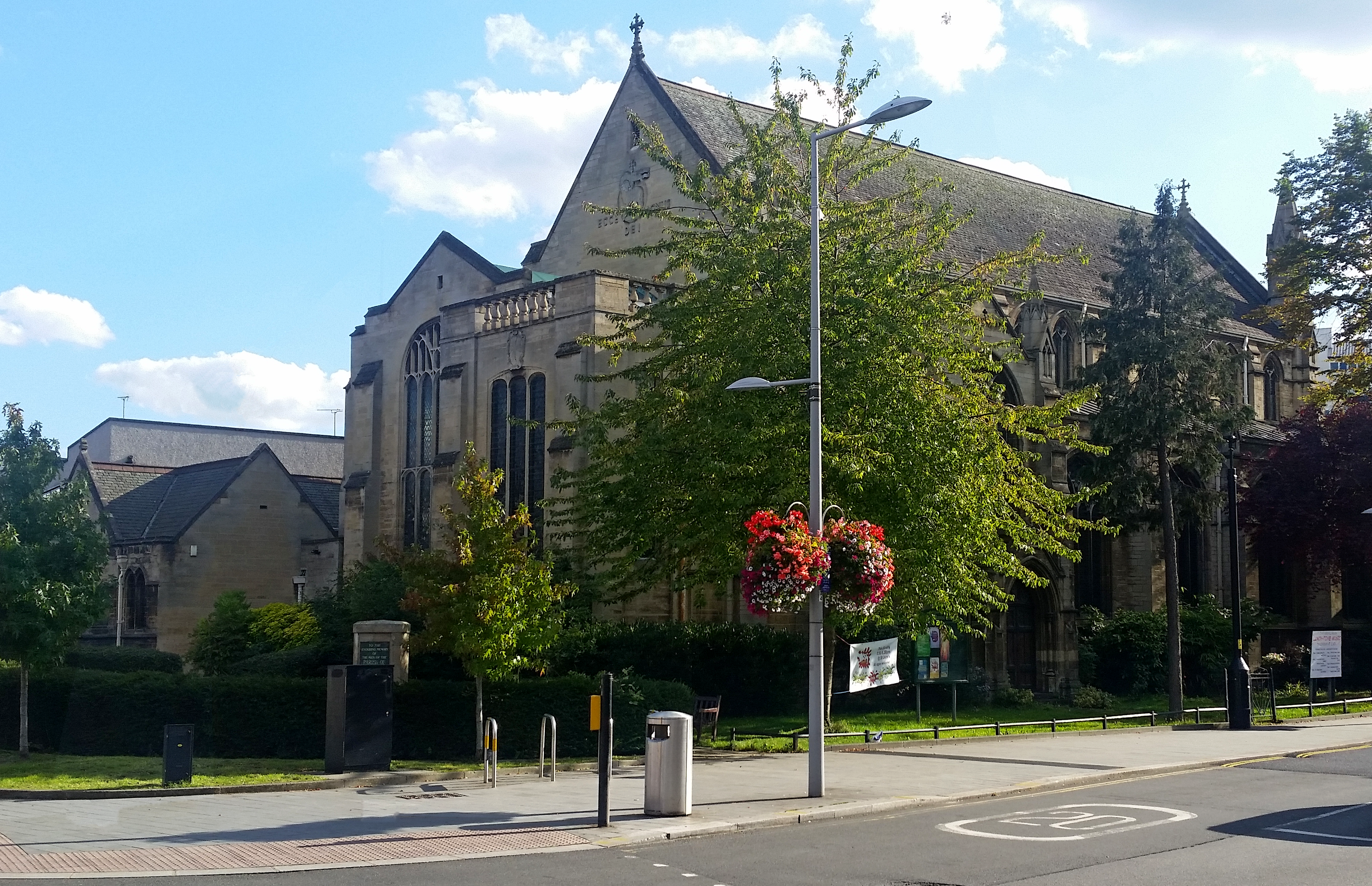 Church Of St John The Baptist Greenhill from north Wikidata has entry Q26546514 with data related to this item.